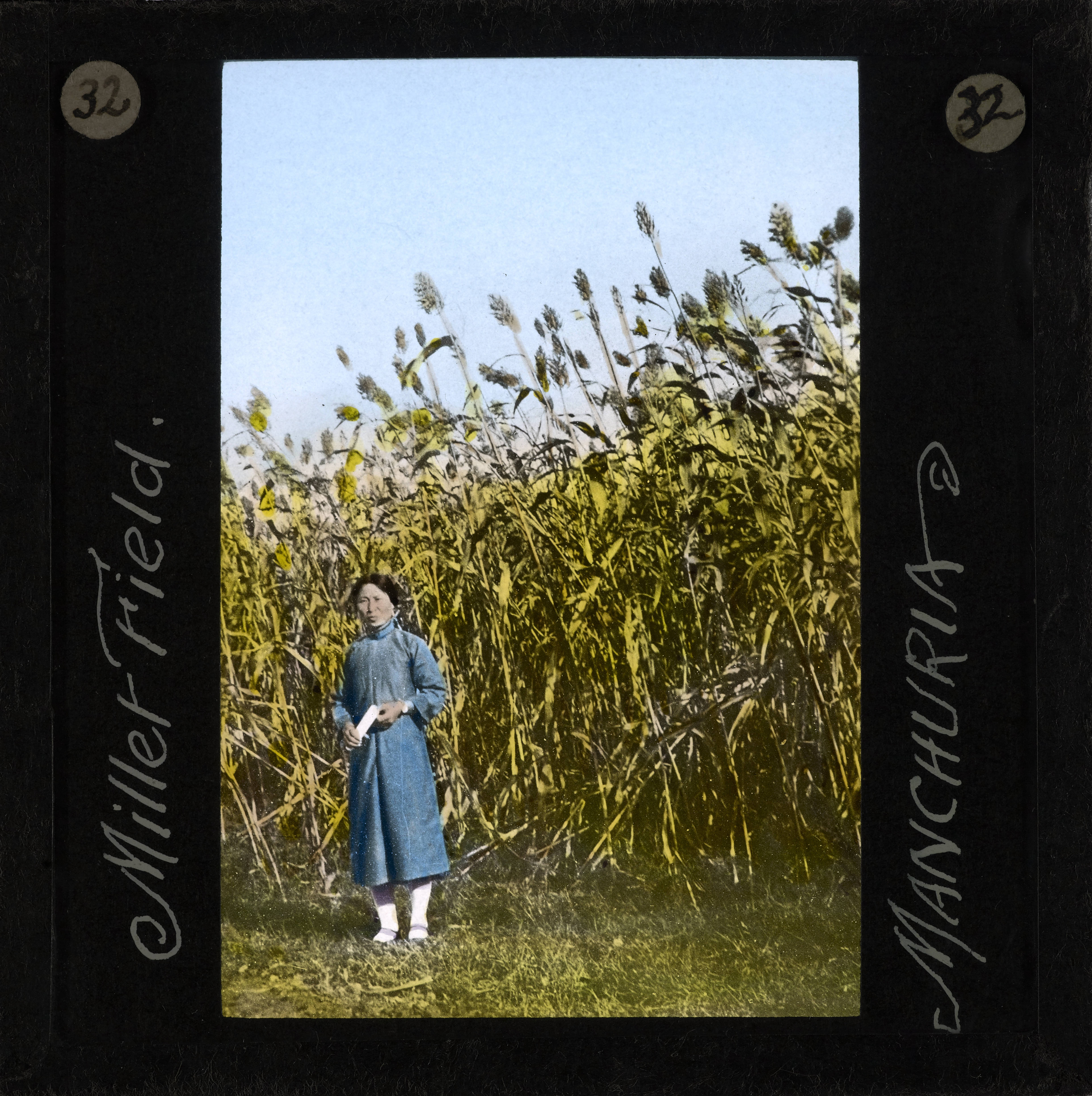 Millet Field, Manchuria, ca. 1882-ca. 1936 Photograph of a Chinese woman standing in front of tall crops or millet. Millet is a cereal crop or grain that has been grown in China since around 6000 BC. The woman is wearing a traditional blue Chinese gown.; This belongs to a series of Church of Scotland Foreign Missions Committee lantern slides relating to the Scottish missionary Dugald Christie. Dugald Christie was born in Glencoe in Scotland and studied medicine under the auspices of the Edinburgh Medical Missionary Society. In 1882, along with his first wife, Elizabeth, he went to Manchuria to work as a medical missionary of the United Presbyterian Church of Scotland. He worked initially in Newchang and later moved to the capital of Mukden where he opened Manchuriaas first hospital in 1884. In 1912 he established Mukden Medical College. Dugald Christie retired in 1923 and died in Edinburgh in 1936. Photographer: Unknown Filename: imp-cswc-GB-237-CSWC47-LS8-032.tif Coverage date: 1882/1936 Part of collection: International Mission Photography Archive, ca.1860-ca.1960 Geographic subject (region): Manchuria Type: images Part of subcollection: Photographs from the Centre for the Study of World Christianity, University of Edinburgh, U.K., ca.1900-ca.1940s Repository name: Centre for the Study of World Christianity Archival file: impaunpub_Volume7/1694.url Repository address: The University of Edinburgh School of Divinity, New College, Mound Place, Edinburgh EH1 2LX, United Kingdom Geographic subject (country): China Format (aacr2): 1 lantern slide : 8 x 8 cm. Geographic subject (continent): Asia Rights: Contact the repository for details. Part of series: Dugald Christie LS8 Repository Subject (lcsh Keyword): Agriculture; Food Date created: 1882/1936 Publisher (of the digital version): University of Southern California. Libraries Subject (aat genre): exterior views Format (aat): lantern slides Legacy record ID: impa-m69143 Access conditions: File: GB 237 CSWC47/LS8/32